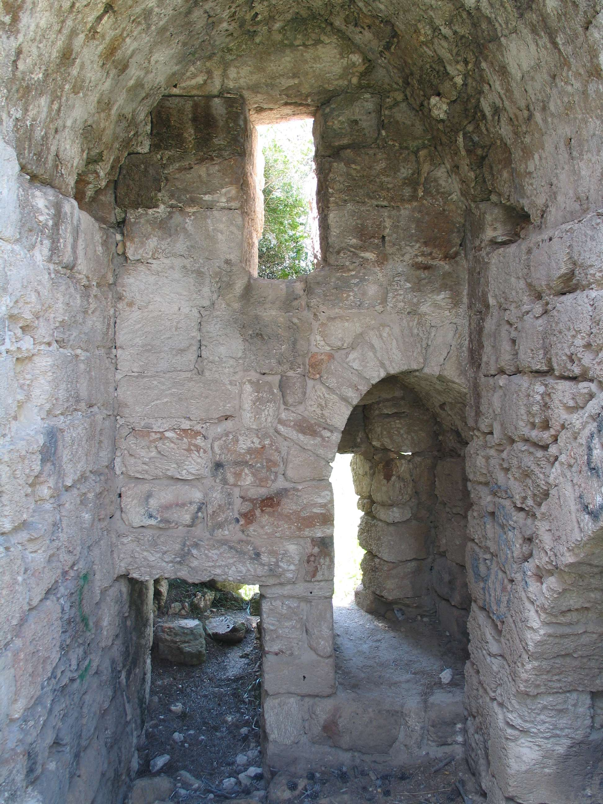 Khirbet Rushmiya (Rosh Maya, Rosh Mayim), Haifa, Israel.